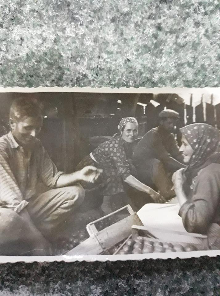 Roșii pregătite pentru export în anii 80